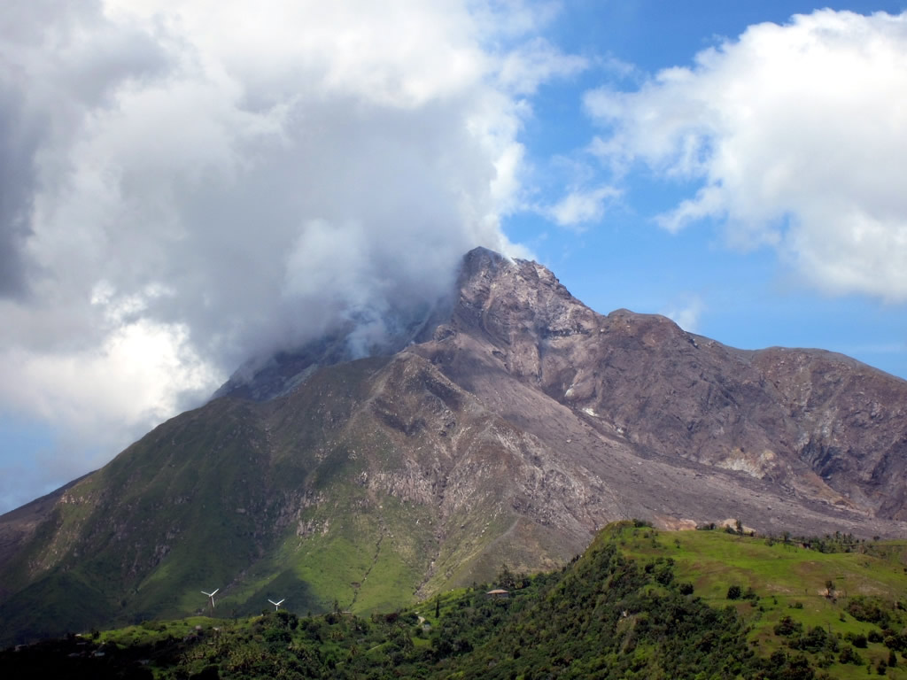 The Soufriere Hills Volcano continues to smoke 16 years after the initial 1995 eruption.